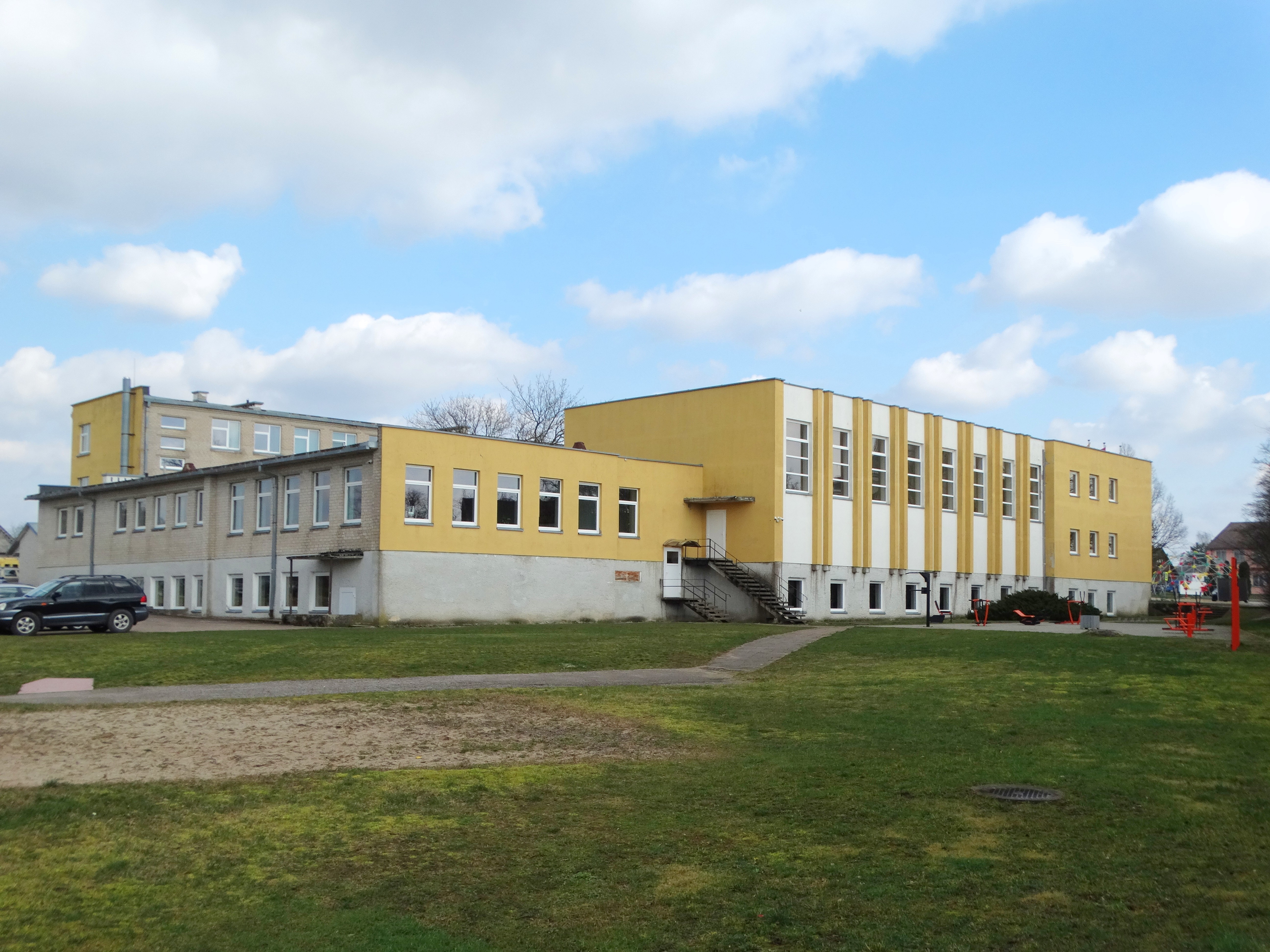 Gymnasium, Veiviržėnai, Klaipėda District, Lithuania